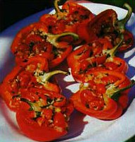 Vegetarian stuffed peppers